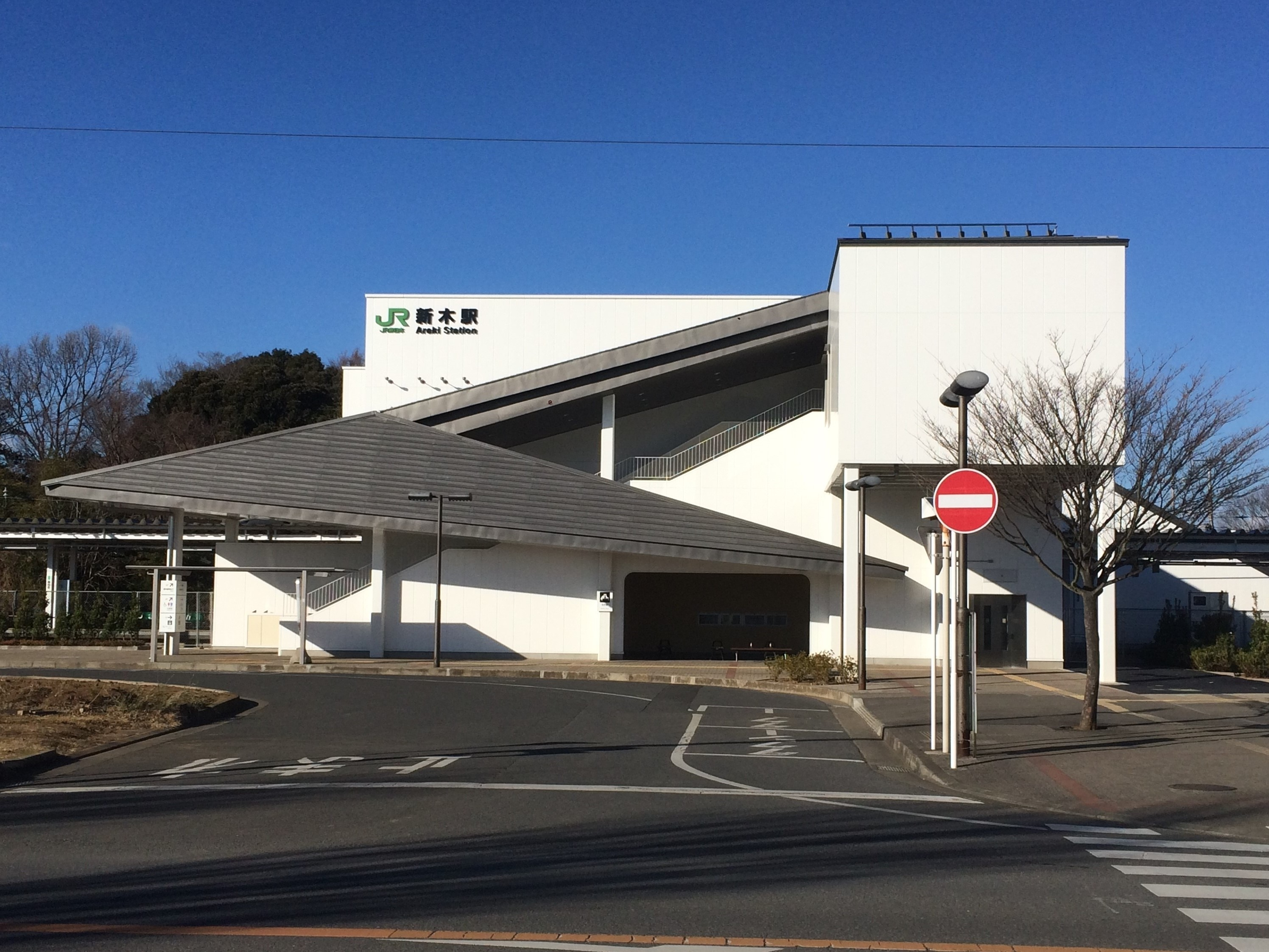 Araki Station in Chiba Prefecture, Japan